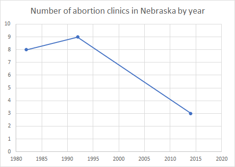 Number of abortion clinics in Nebraska by year. Data is from articles linked at